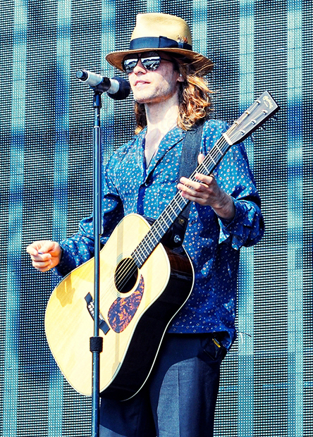 Thirty Seconds to Mars performing in Padova, Italy on July 14, 2013